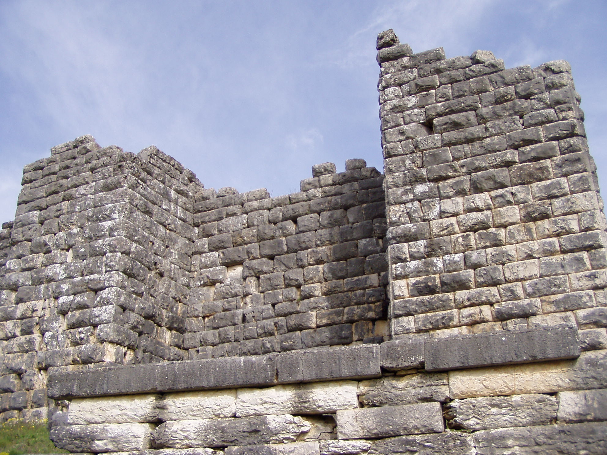 This is the Bouleuterion in Dodona.